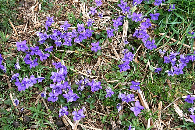 Violets (Viola riviniana) An unusually thick patch of wild violets by the side of the road.